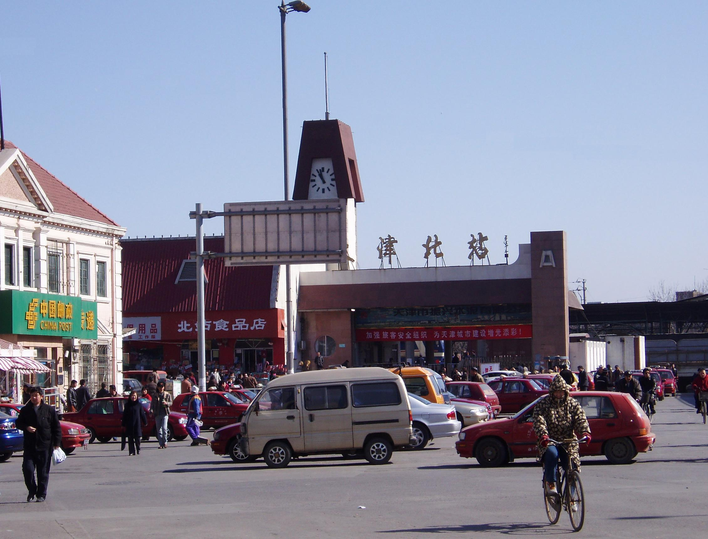 Tianjin North Railway Station